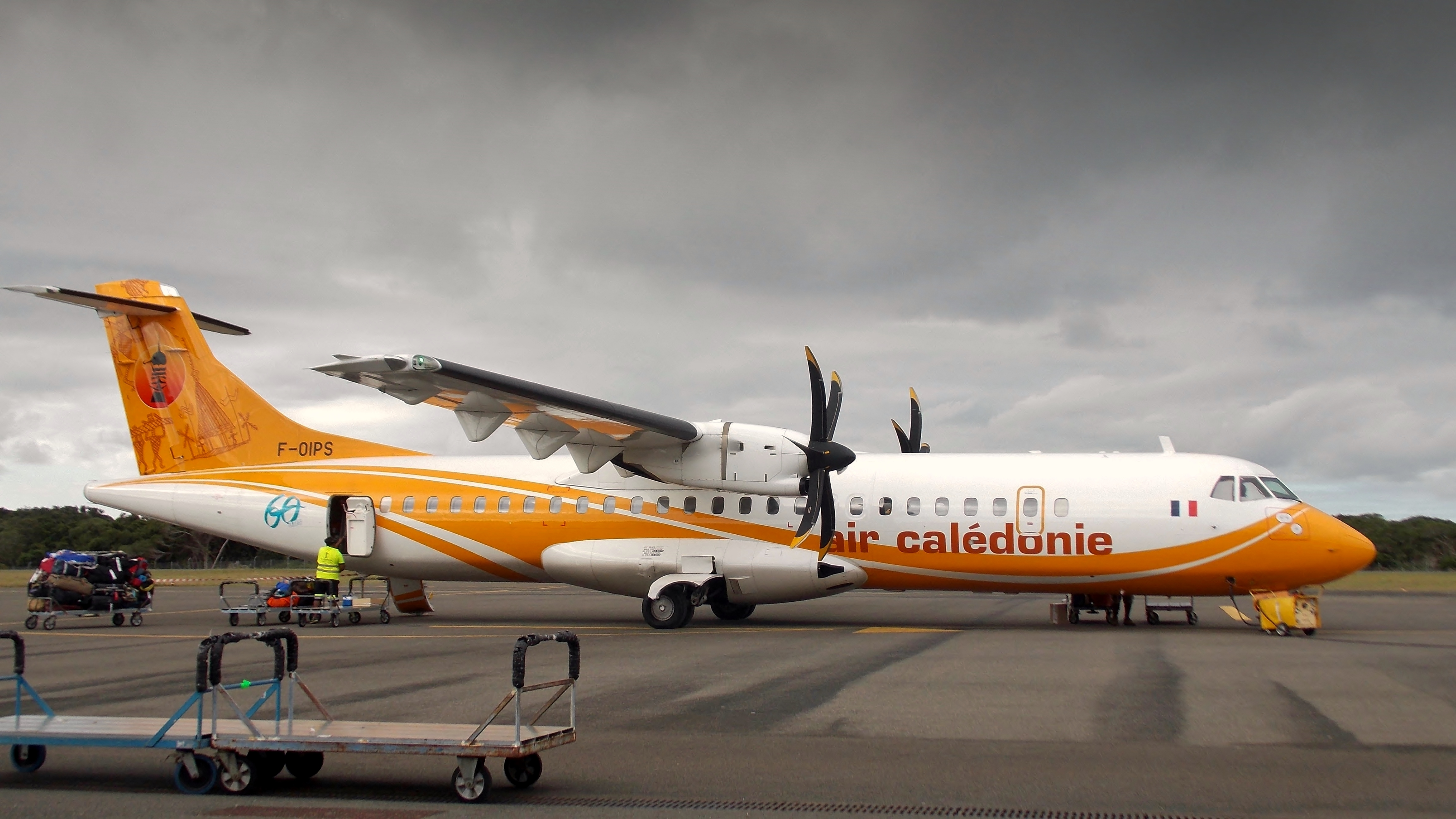 Air Calédonie ATR 72-500 (F-OIPS) aircraft at Ouvéa Airport